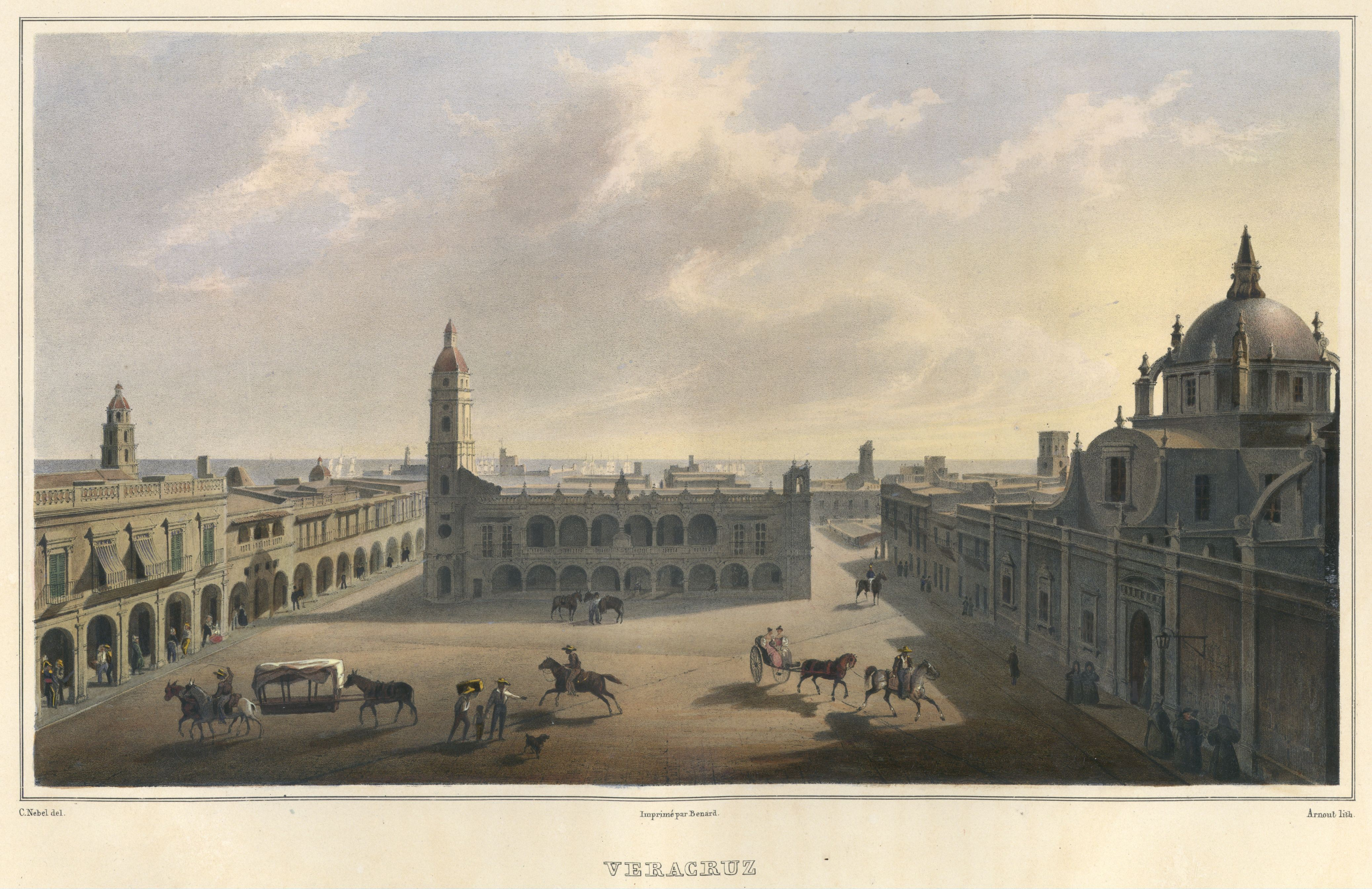 View of the main plaza of Veracruz, Mexico, 1829-1834. Hand-colored lithograph highlighted with gum arabic. Original size (neat lines): 34.3×20 cm.